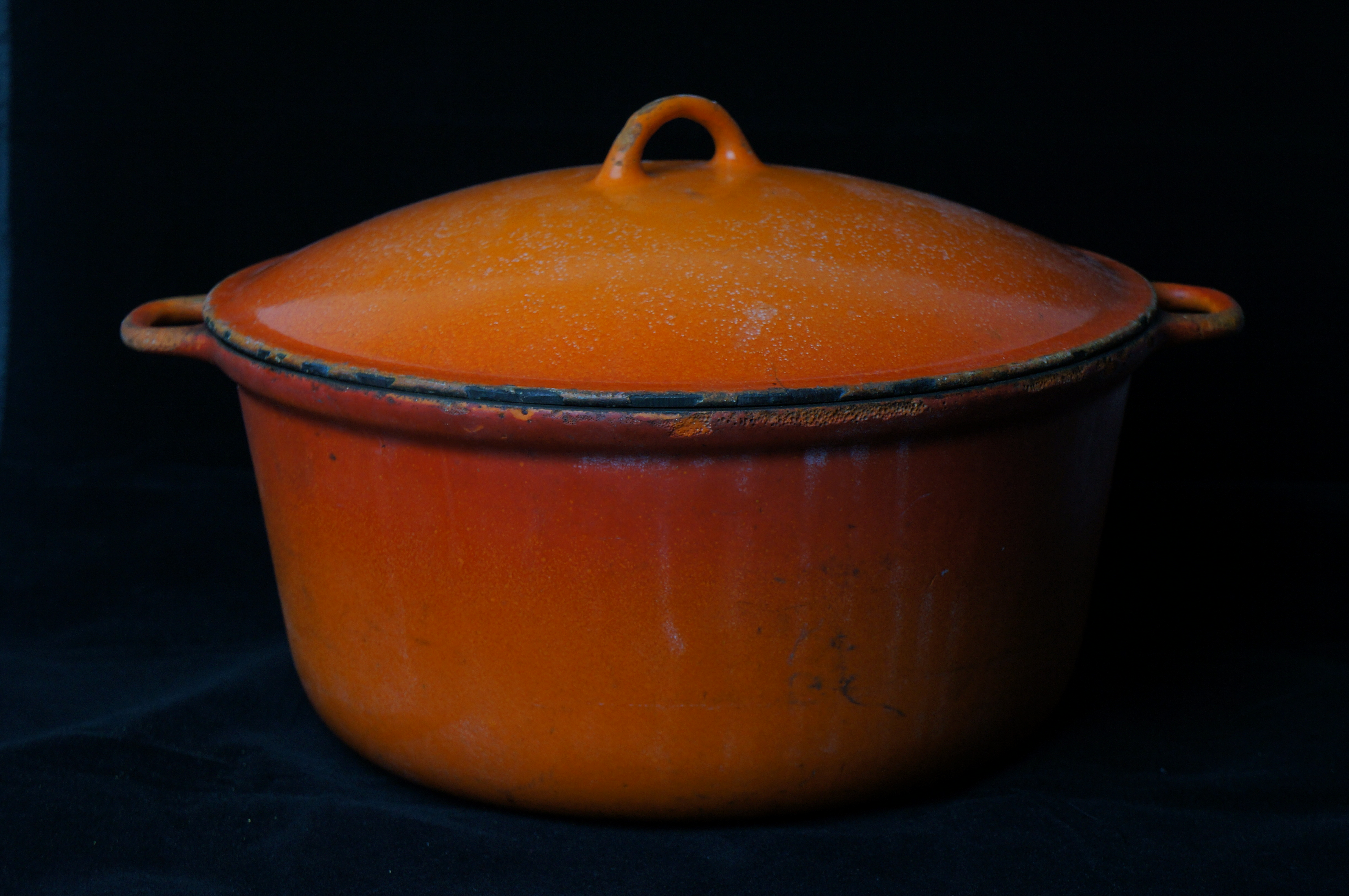 A cast iron pot with a cadmium based enamel. No editing performed.